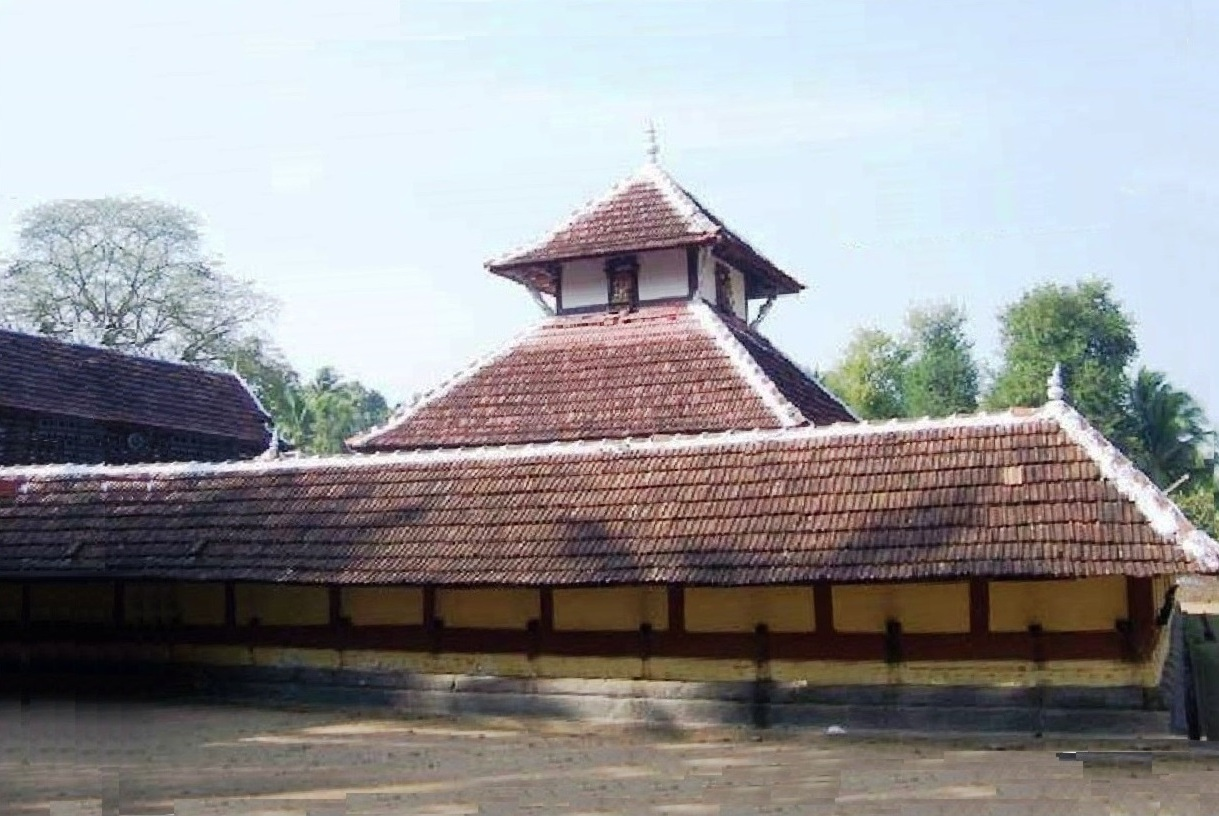 Thrippaloor Mahadeva Temple